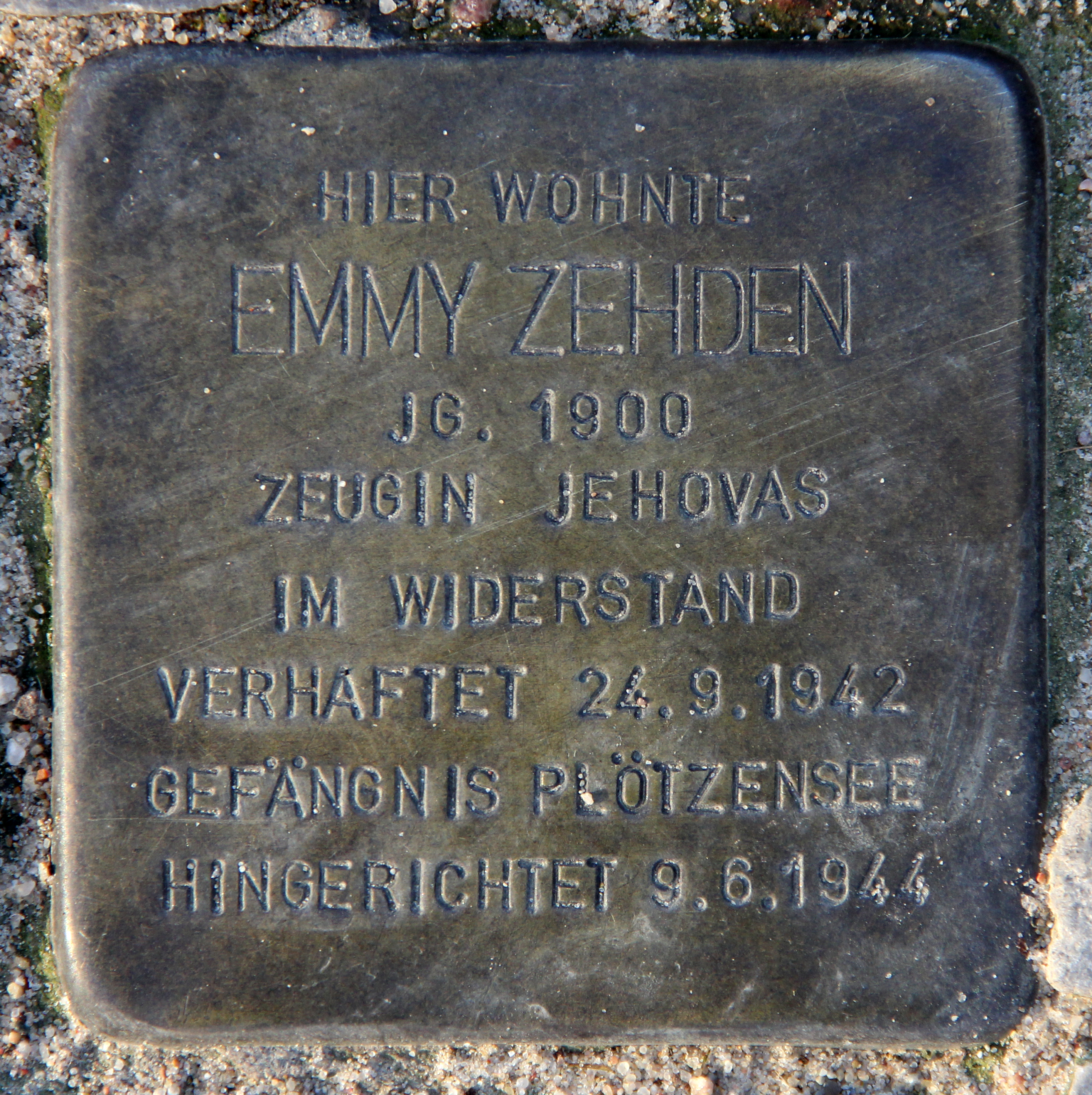 "Stolperstein" (stumbling block), Emmy Zehden, Franzstraße 32, Berlin-Wilhelmstadt, Germany